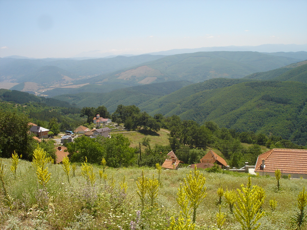 village of Crvena Voda in Debrca municipality, Macedonia